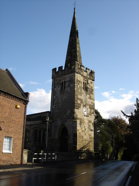 St Leonard's Parish Church, Wollaton